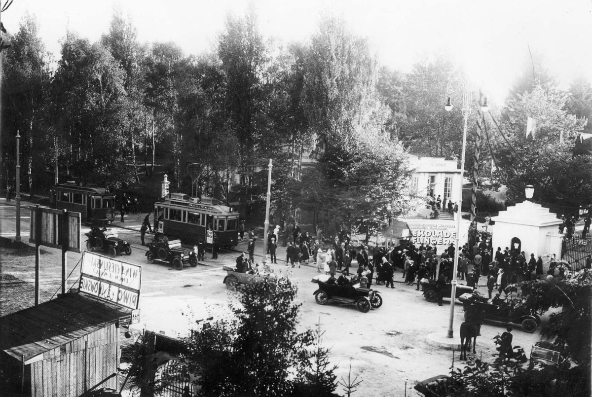 The Eastern Trade Fair. Lviv, Second Polish Republic